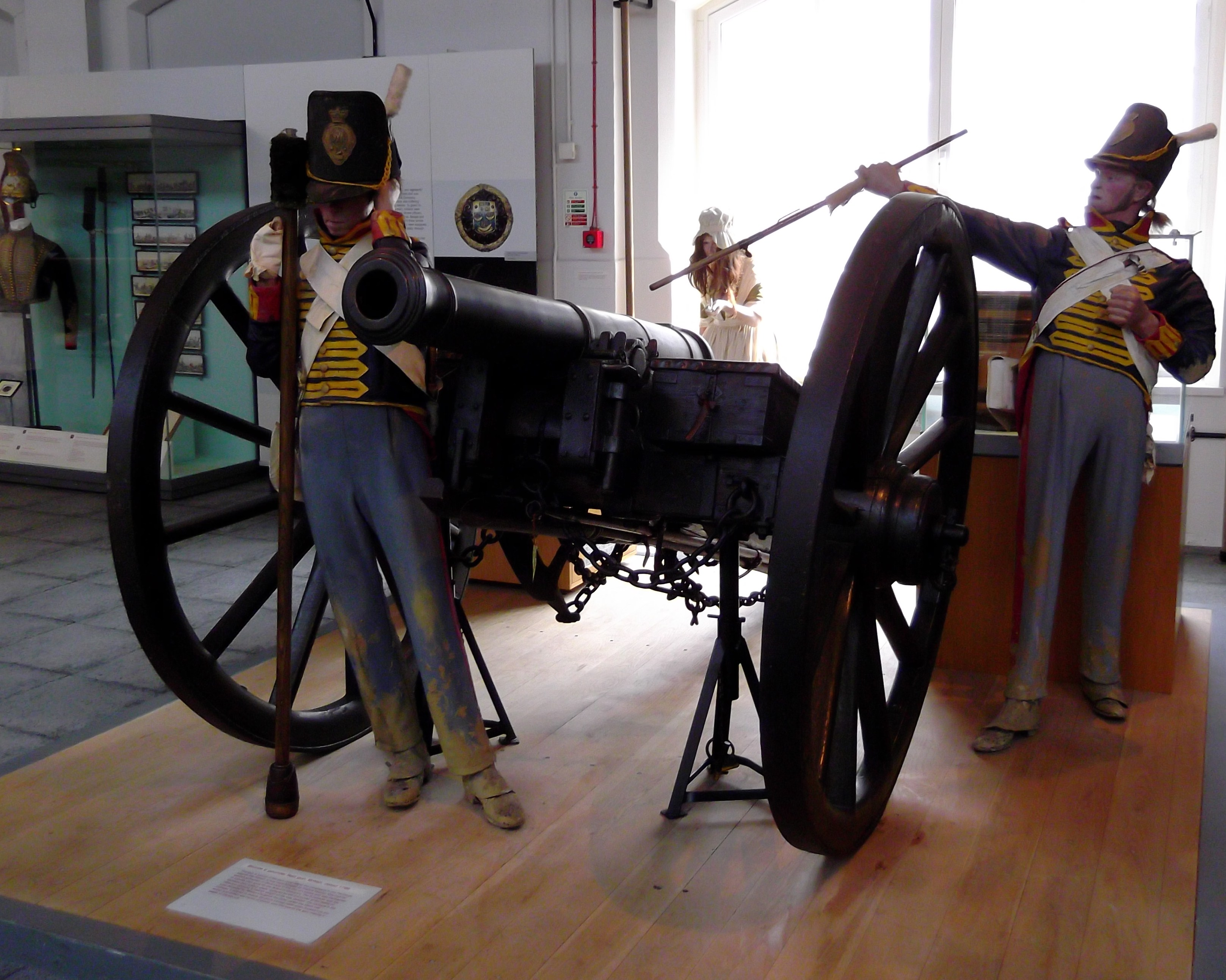 Royal Artillery Museum Woolwich London 239